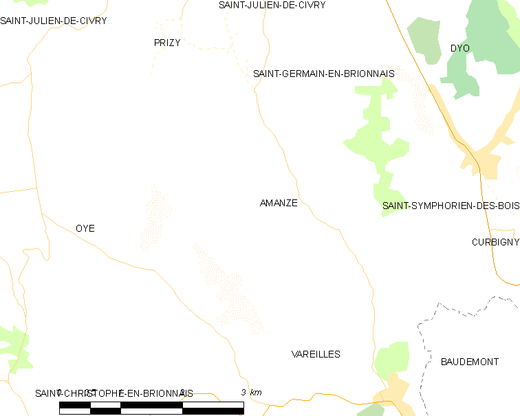 Map of French municipality